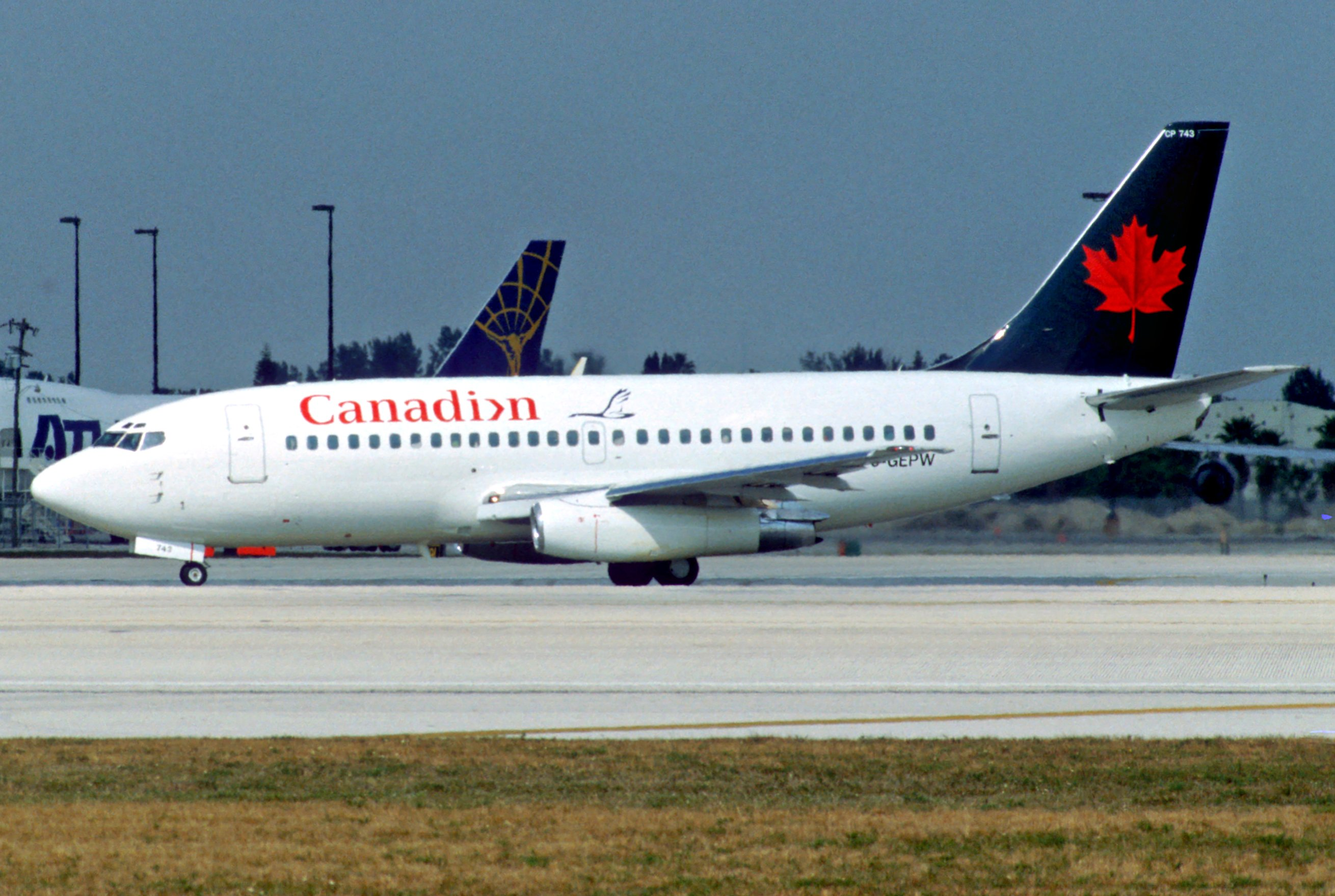 First flight: October 31, 1975... 12/12/1975 Pacific Western C-GEPW 01/09/1983 America West Airlines N129AW 25/02/1985 Pacific Western C-GEPW 26/04/1987 Canadian Airlines C-GEPW 08/03/2001 Air Canada C-GEPW stored at Marana